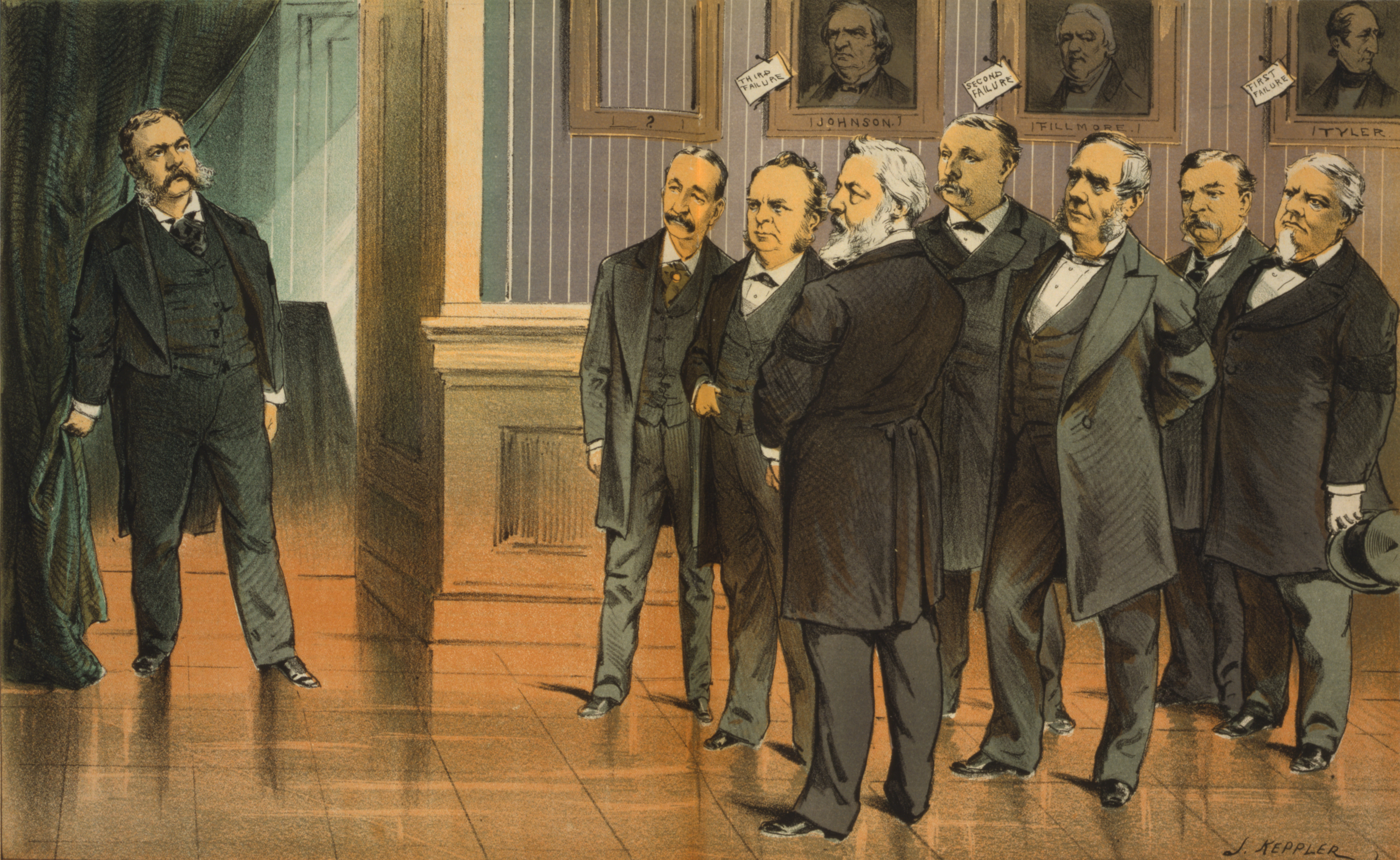 From left to right, this drawing from Puck magazine shows President Chester A. Arthur, Attorney General Wayne MacVeagh, Secretary of the Treasury William Windom, Secretary of State James G. Blaine, Secretary of War Robert Todd Lincoln, Secretary of the Interior Samuel J. Kirkwood, Postmaster General Thomas L. James, and Secretary of the Navy William H. Hunt. Above are pictures of, from left to right, Presidents Andrew Johnson, Millard Fillmore, and John Tyler.